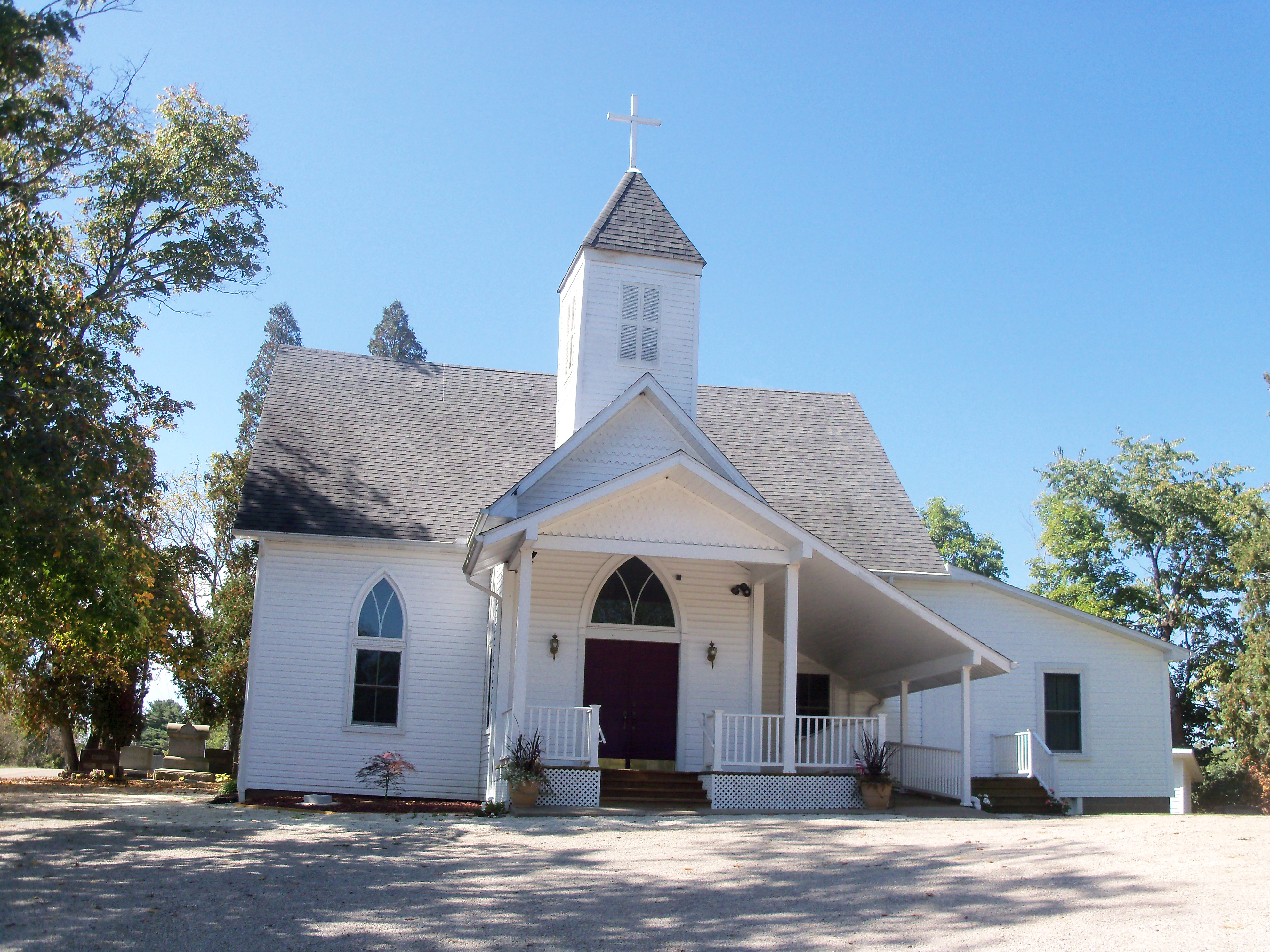 Pleasant Hill Baptist Church near Coshocton, Ohio